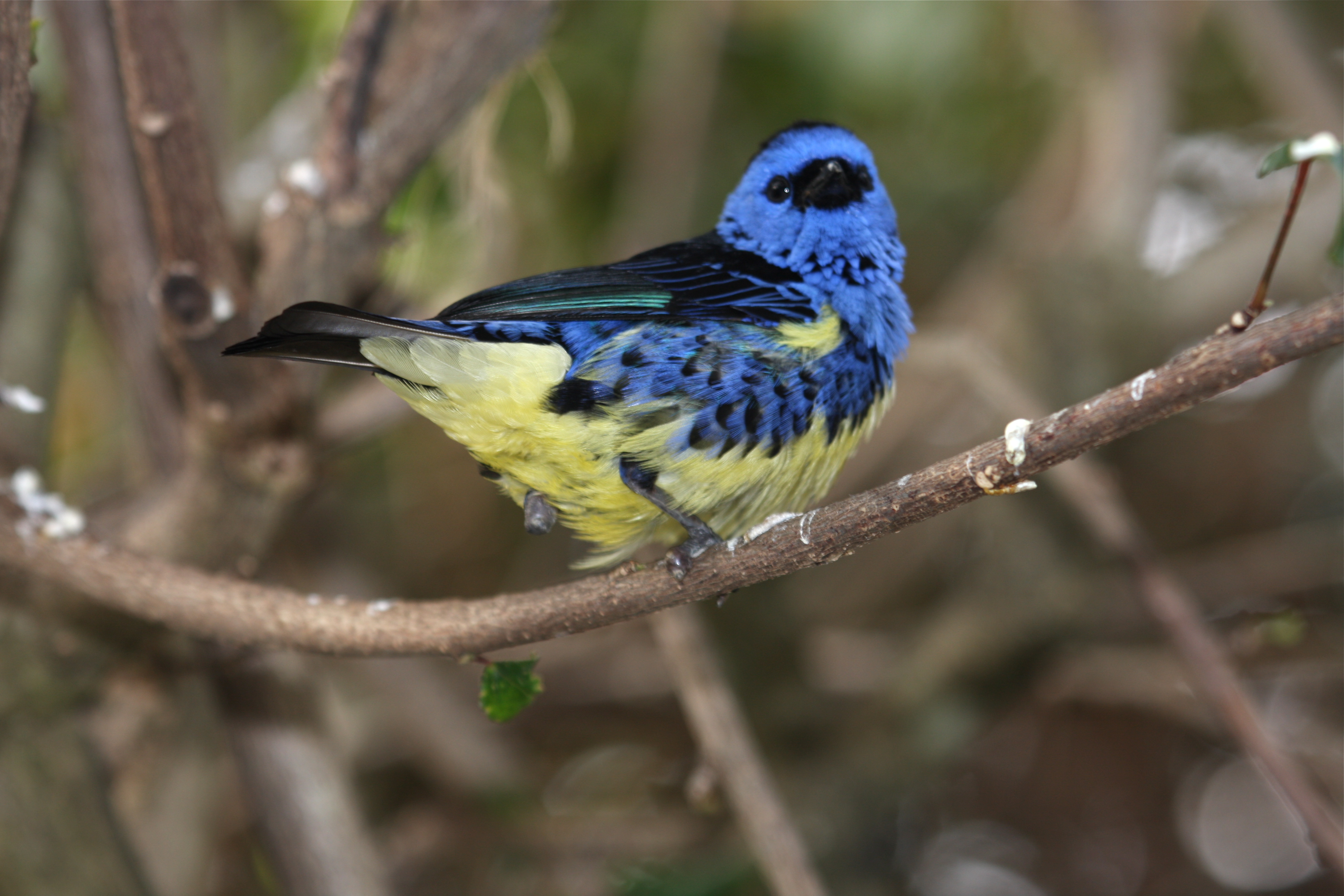 Turquoise Tanager in captivity.